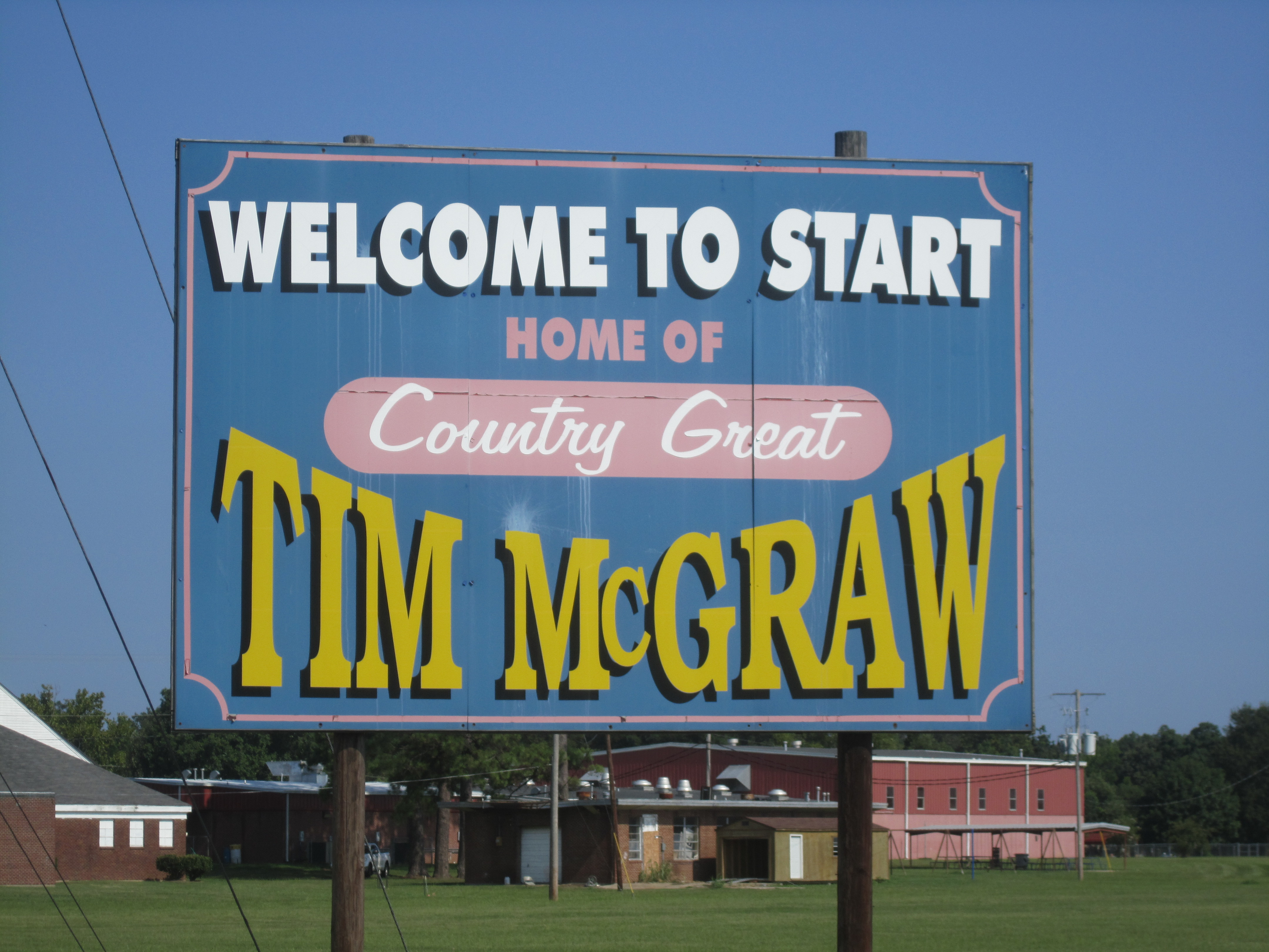 I took photo with Canon camera in Start, Richland Parish, LA.